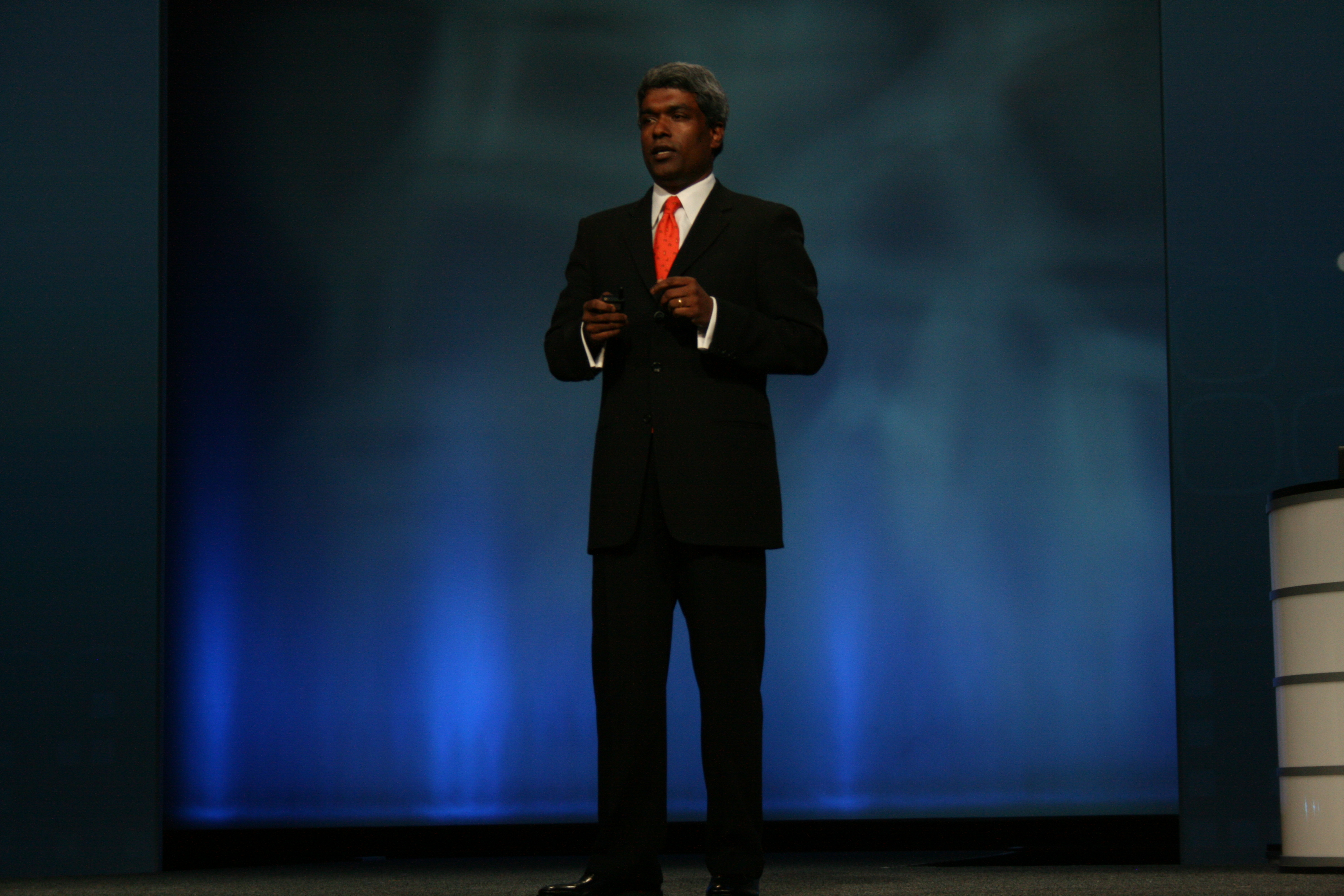 Thomas Kurian, Executive Vice President of Product Development at Oracle Corporation, at Oracle OpenWorld in 2010.